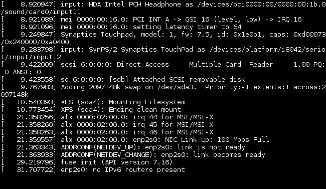 screenshot of linux-libre